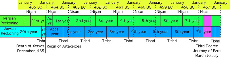 Illustrates chronology of Ezra's journey